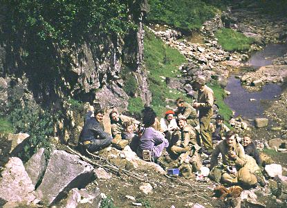 Jim Eyre pictured second on the left.